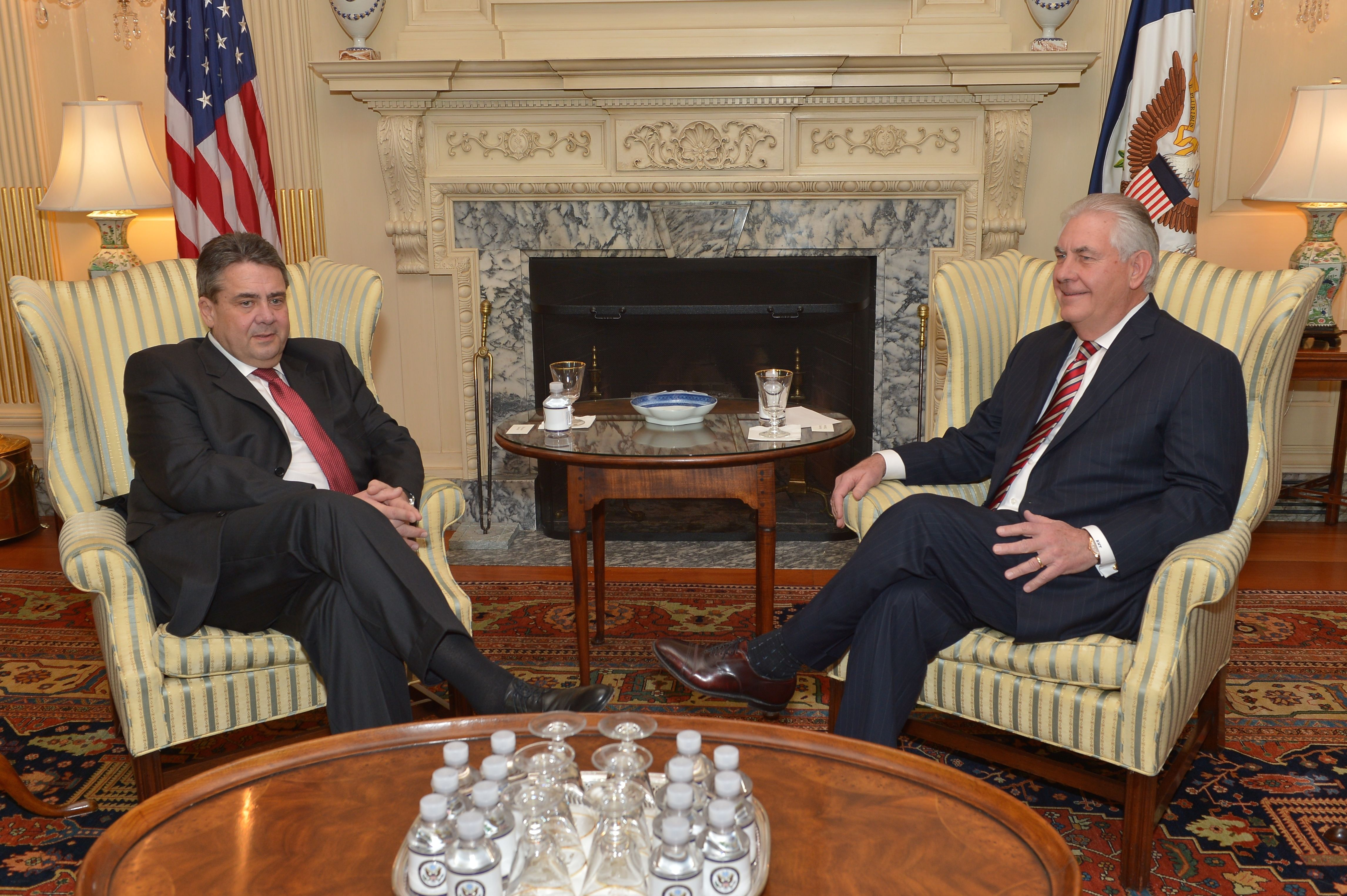 U.S. Secretary of State Rex Tillerson meets with German Foreign Minister Sigmar Gabriel at the U.S. Department of State in Washington, D.C., on February 2, 2017. [State Department photo/ Public Domain]